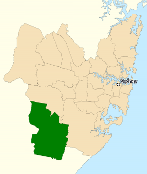 Incorporates or developed using Administrative Boundaries ©PSMA Australia Limited licensed by the Commonwealth of Australia under Creative Commons Attribution 4.0 International licence (CC BY 4.0). Derived from State and Territory Boundaries from the Australian Bureau of Statistics under Creative Commons Attribution 2.5 Australia license (CC BY 2.5 AU)